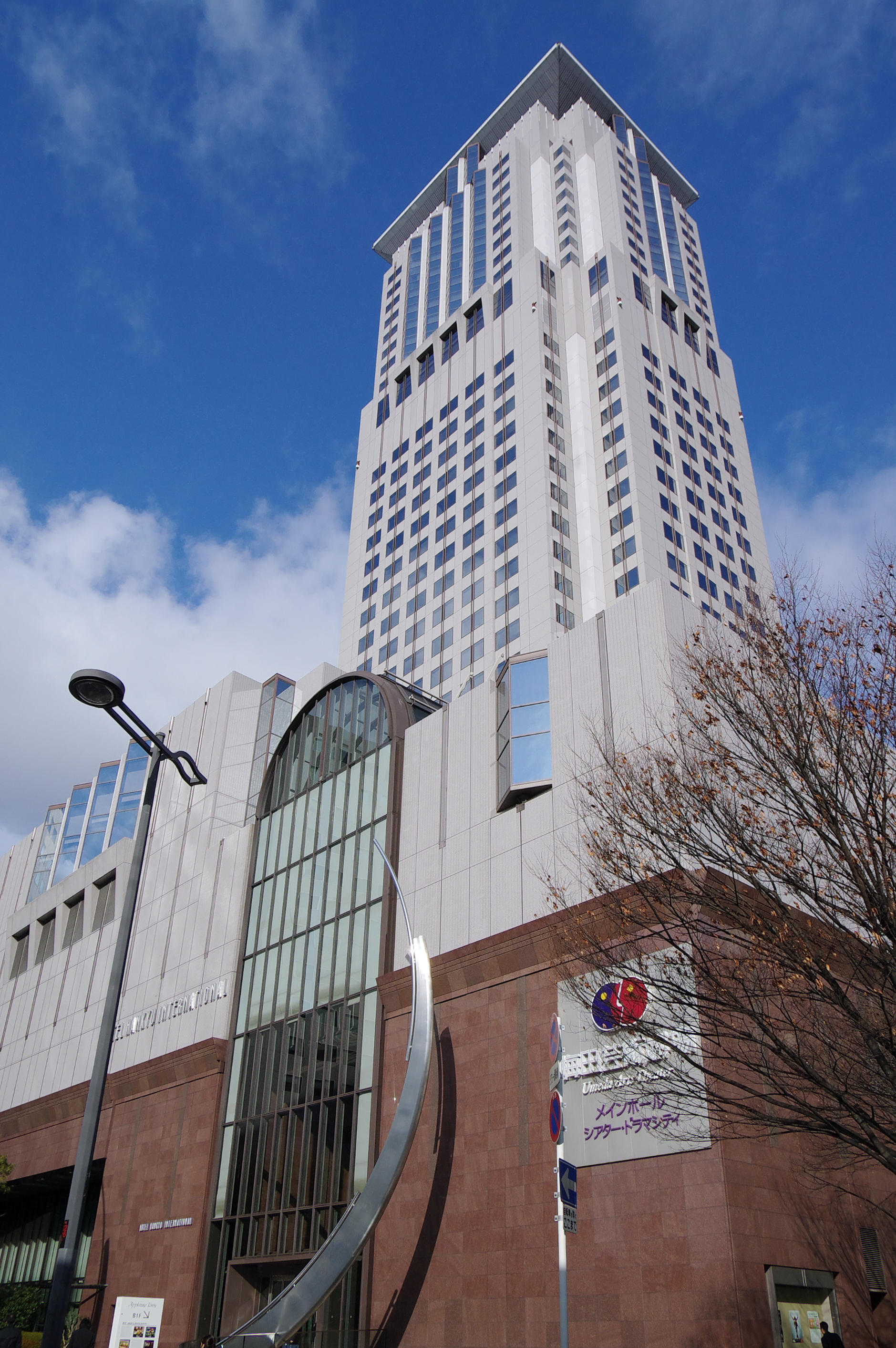 Photograph of Hankyu Chayamachi Building, aka Applause Tower, in Kita-ku, Osaka, Osaka Prefecture, Japan.